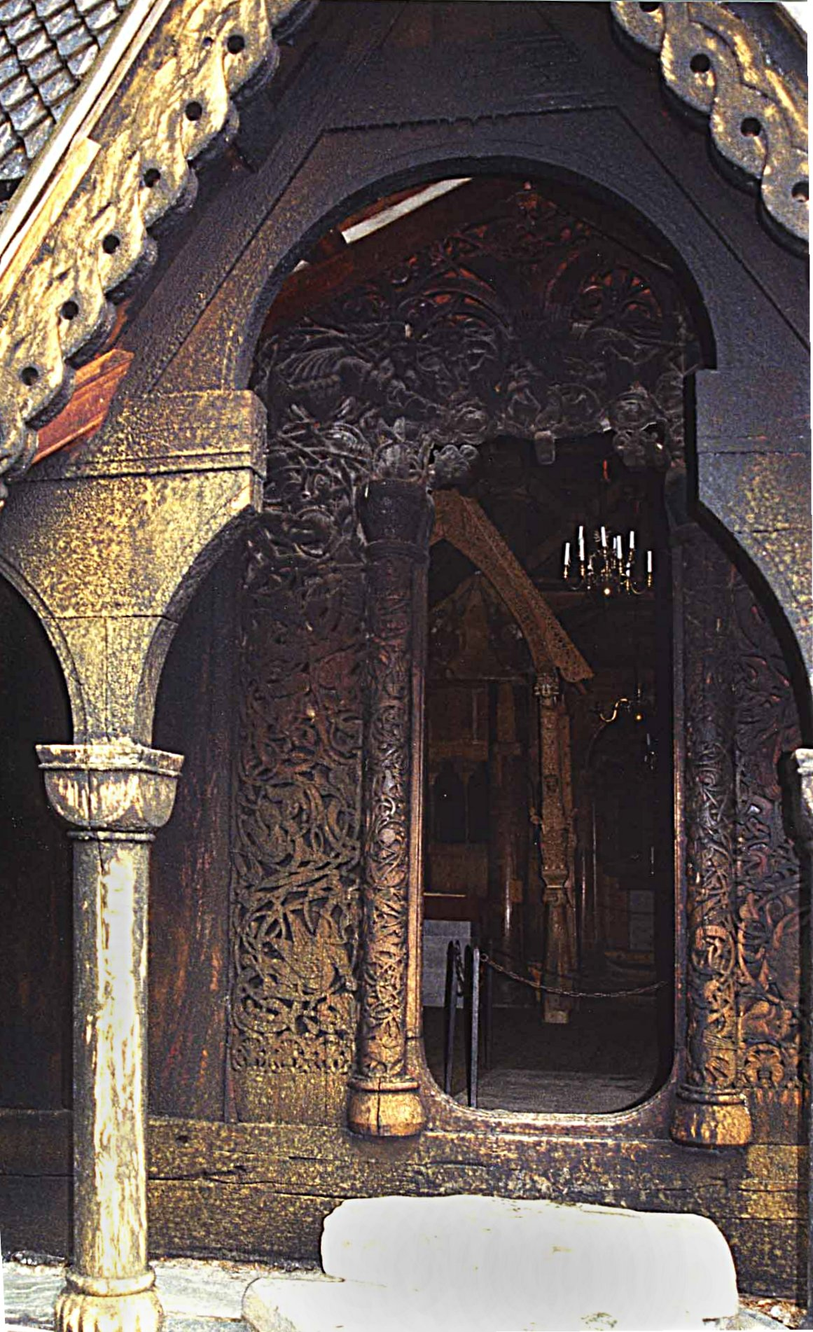 Hopeprstad stave church, main portal Photo Nina Aldin Thune